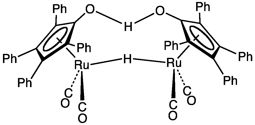 structure of Shvo Catalyst